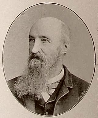 Portrait of William Bruce Gingell, architect (1819-1899), from Bristol, England.